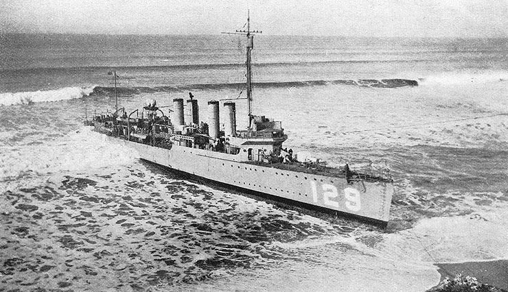 The U.S. Navy Wickes-class destroyer USS DeLong (DD-129). Halftone reproduction of a photograph showing the ship after she went ashore at Halfmoon Bay, California (USA), December 1921.